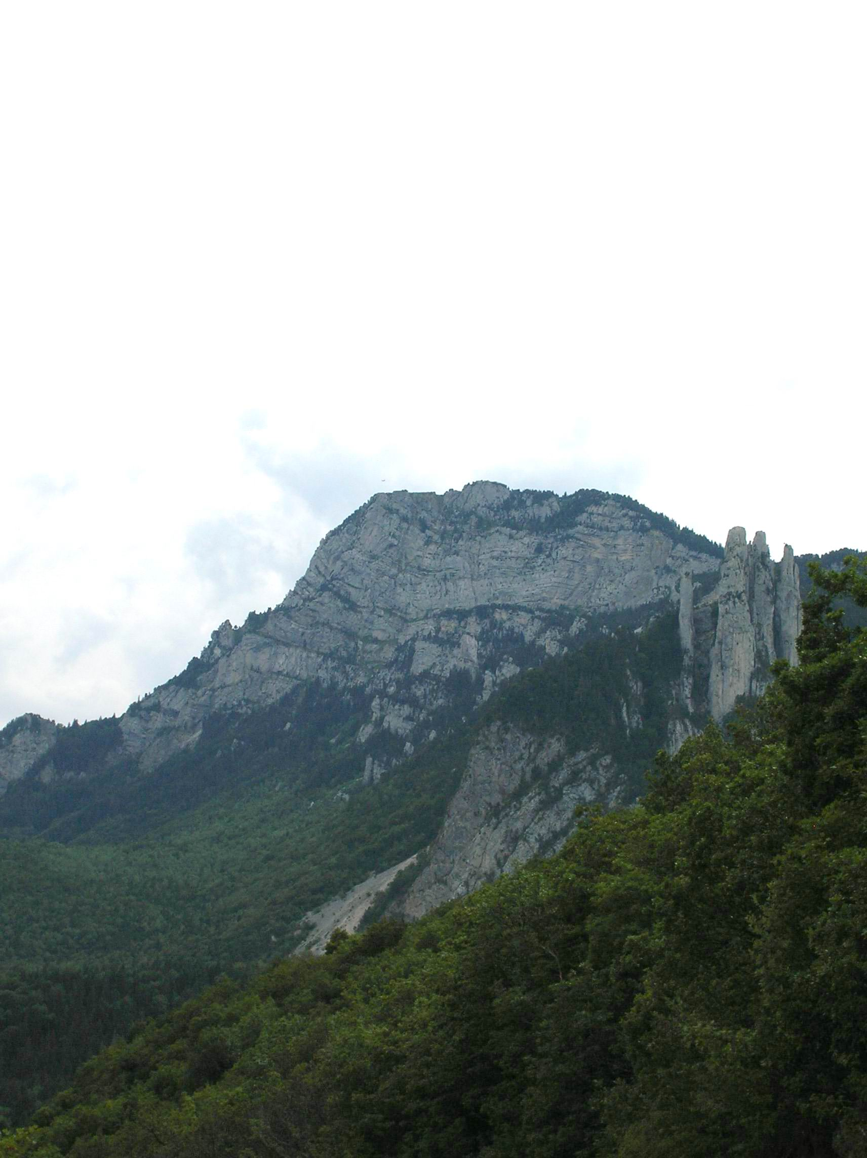 my own photograph